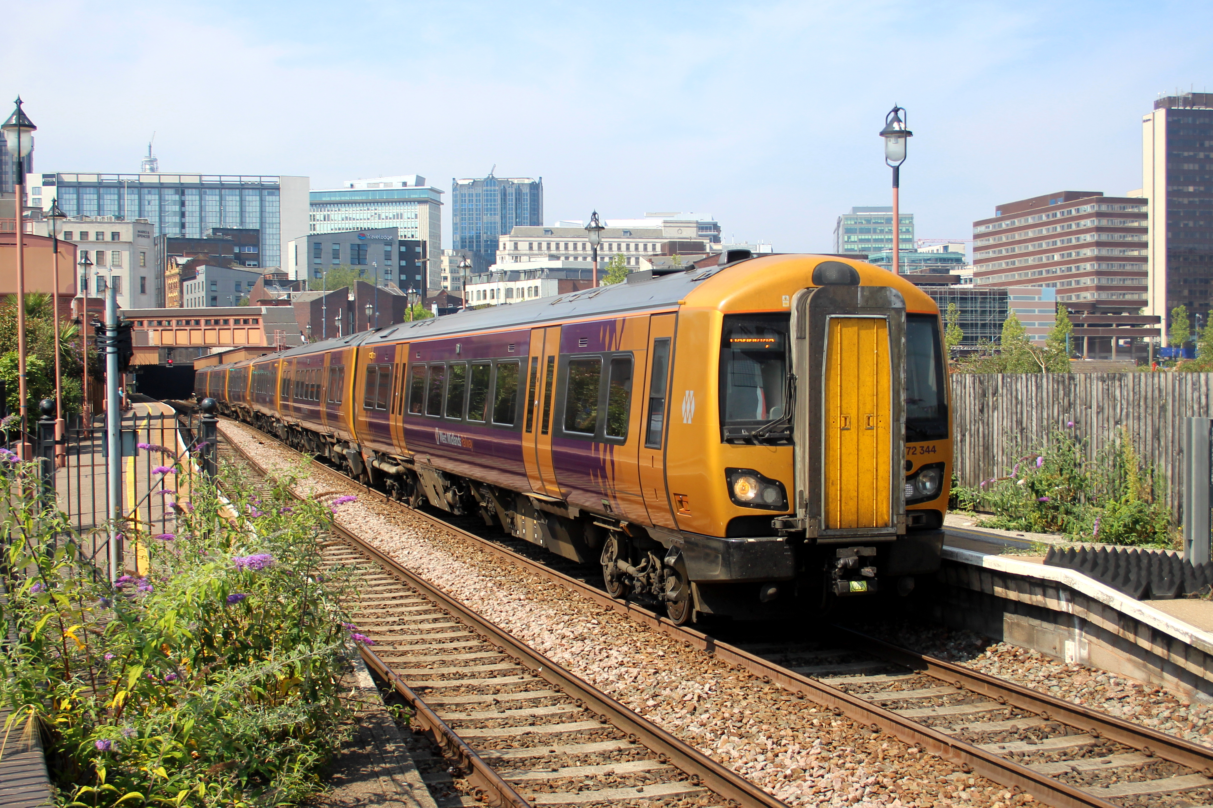 A pair of WMT Class 172/3 diesel units departing Birmingham Moor Street heading south, coupled to make a 6 car formation.